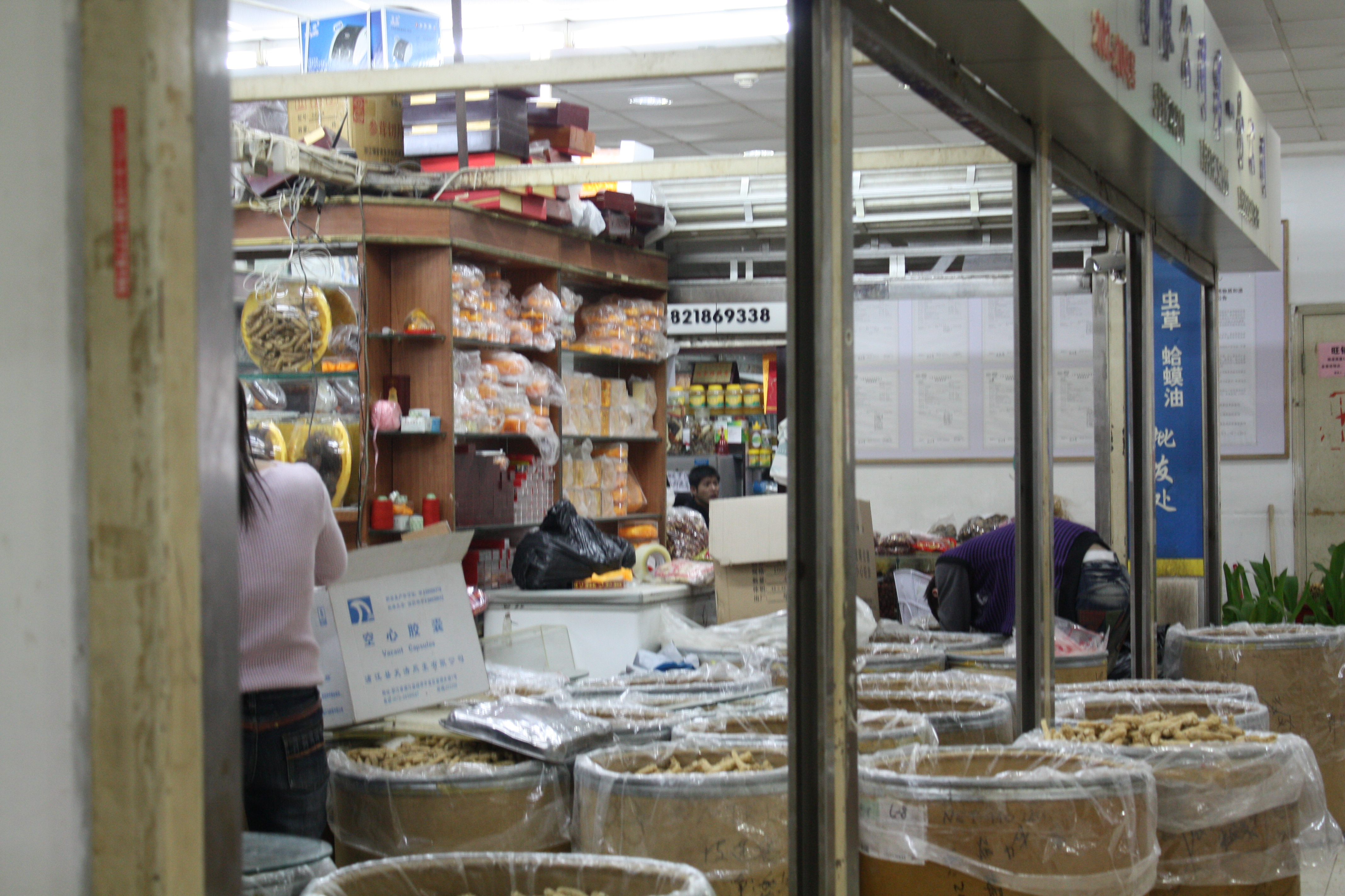 Health store in Shanghai, China. Selling tea, deer penis etc